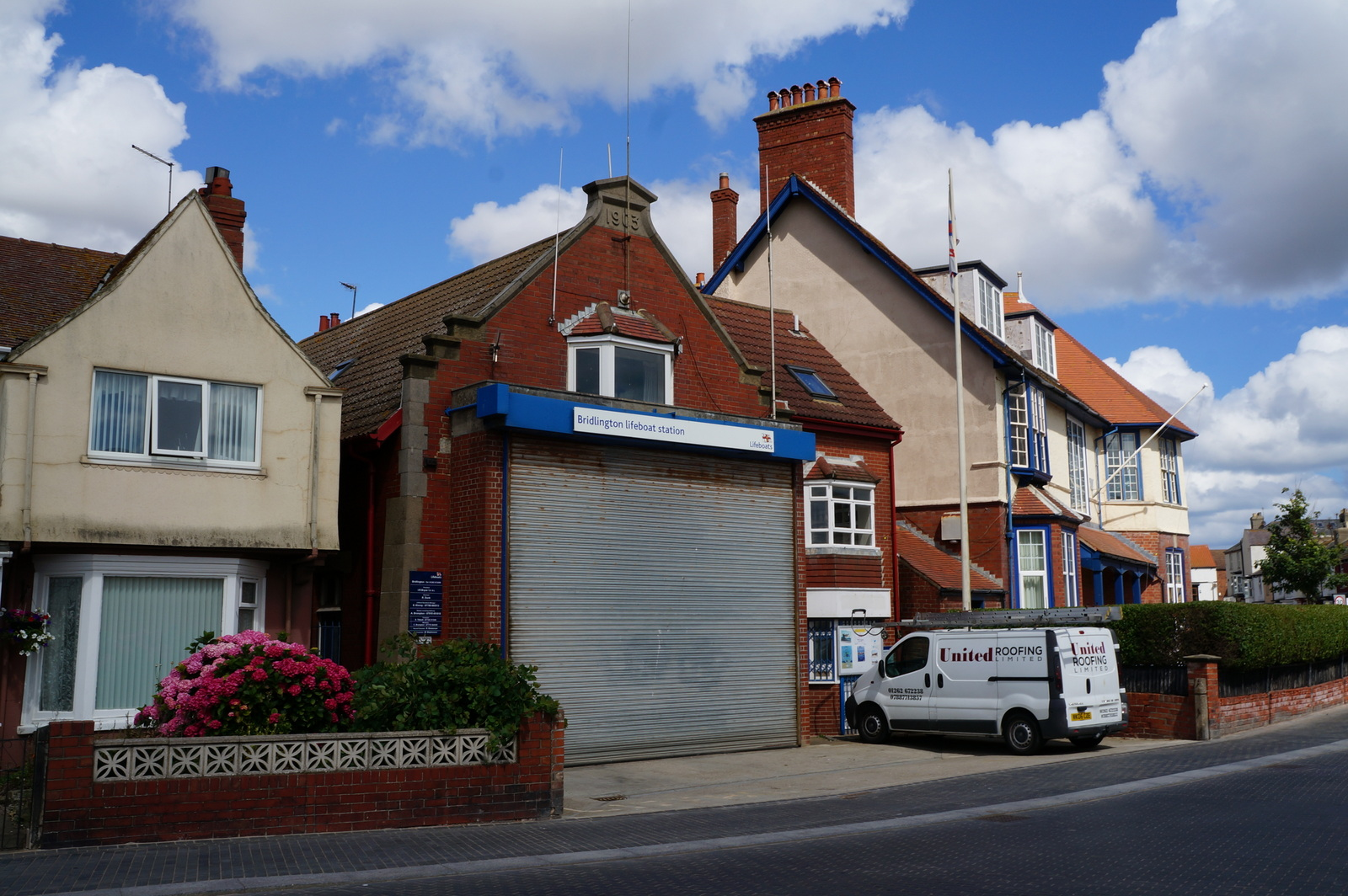 Old Bridlington Lifeboat Station, Bridlington, East Riding of Yorkshire, England.